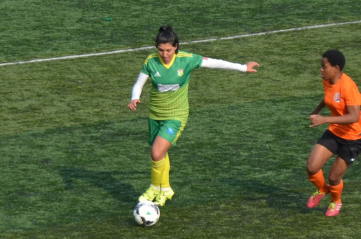 Çiğdem Belci playing for Kireçburnu Spor in the home match of the 2015-16 season against 1207 Antalya Muratpaşa Spor